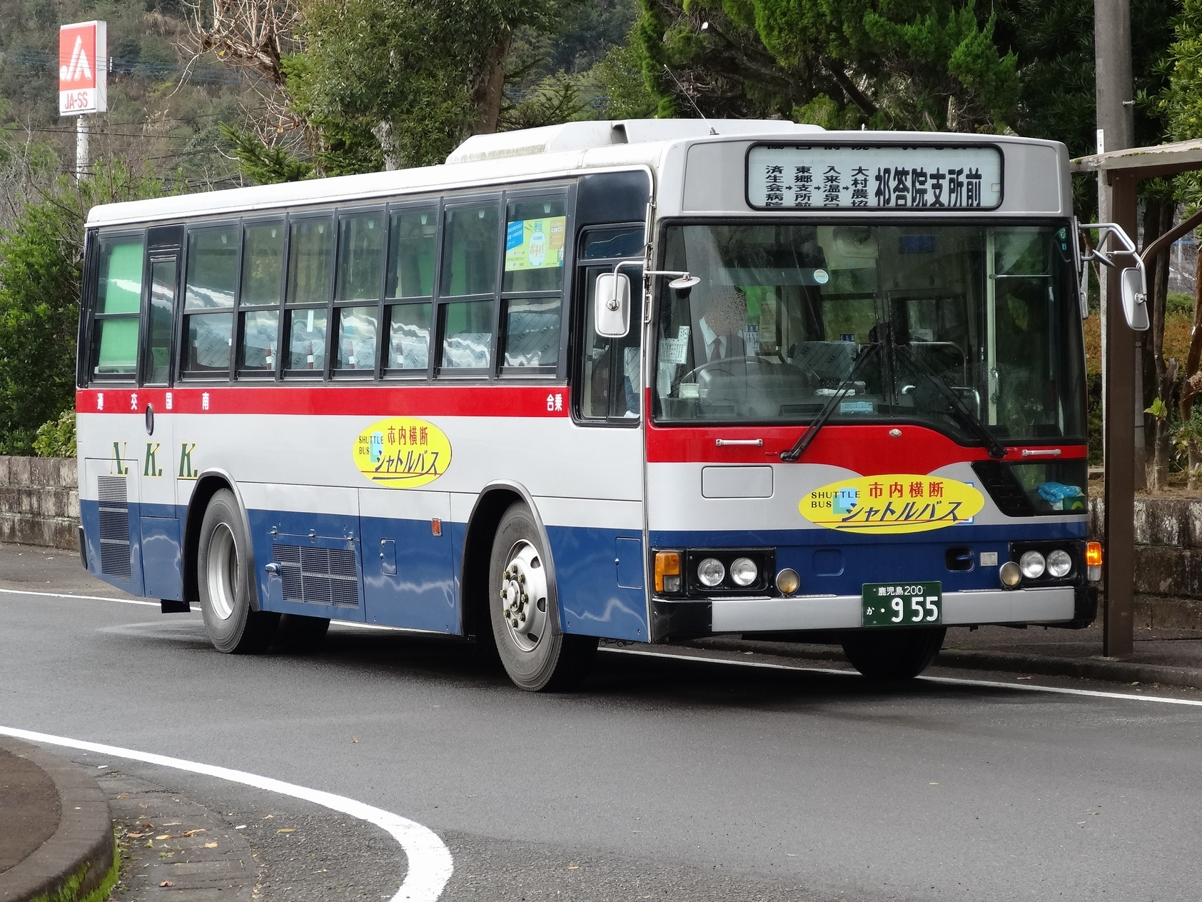 The Satsumasendai City Central - Kedoin District Shuttle Bus (Nangoku Kotsu, Kagoshima Prefecture, Japan)